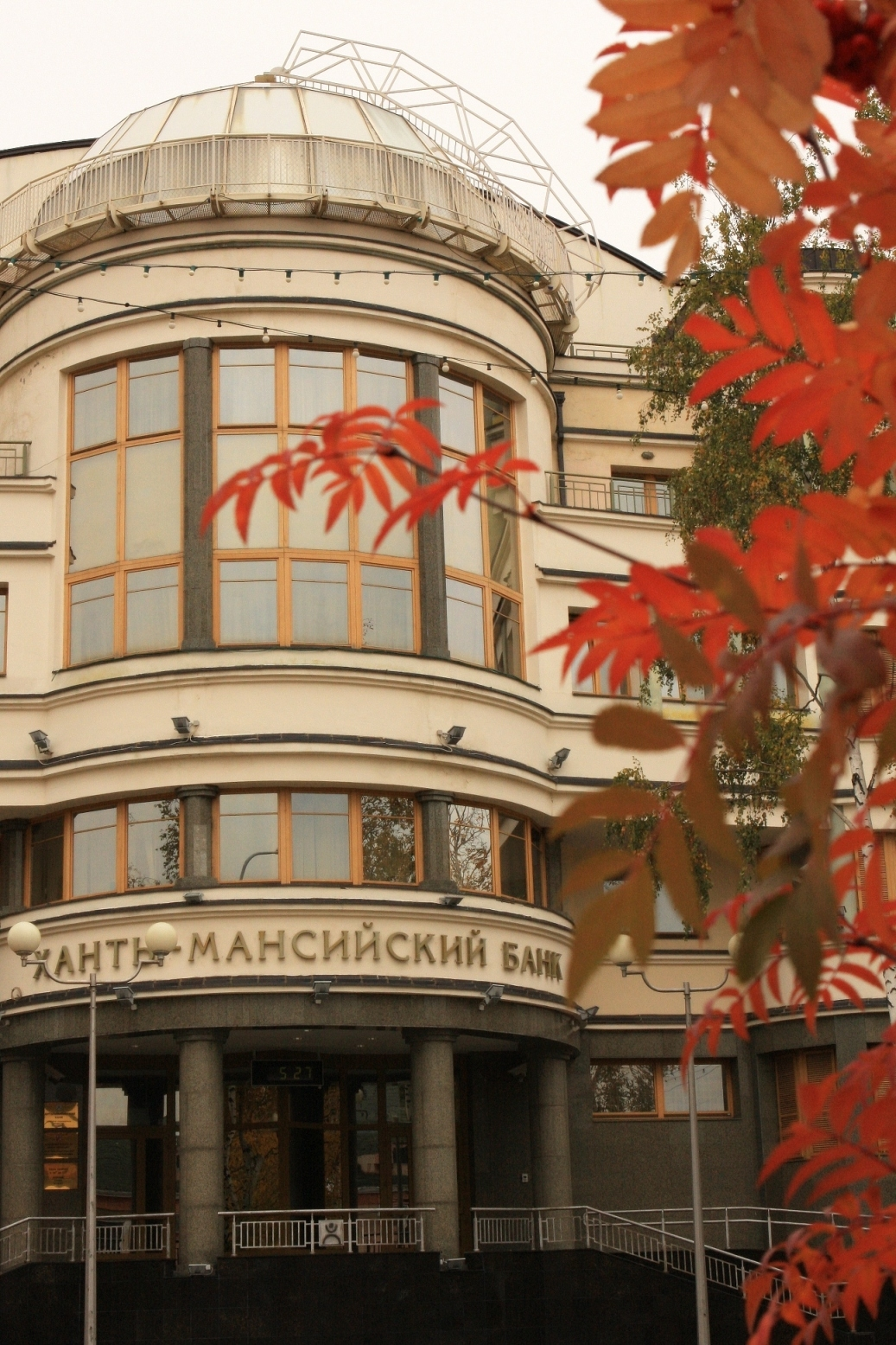 Khanty-Mansi Bank’s headquarters in Mant-Mansiysk, Siberia